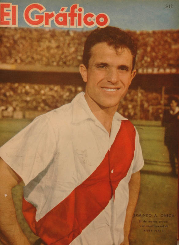 Argentine footballer Ermindo Onega while playing for River Plate.